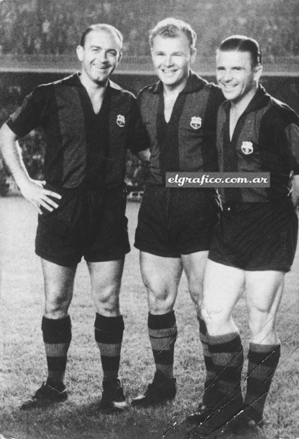 Fltr: Alfredo Di Stéfano, Ladislao Kubala and Ferenc Puskás in the friendly match that Barcelona organised in honor of Kubala at the Camp Nou.